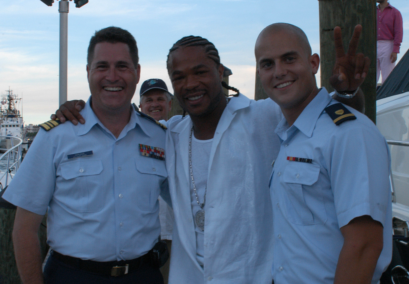 MIAMI (Aug. 29, 2004) -- MTV 2004 Video Music Awards performer Xzibit poses for a picture with Ens. Joseph Klinker and Lt. Cmdr. Lee Scruggs of Sector Miami next to his yacht. USCG photo by PA2 Anastasia Burns.